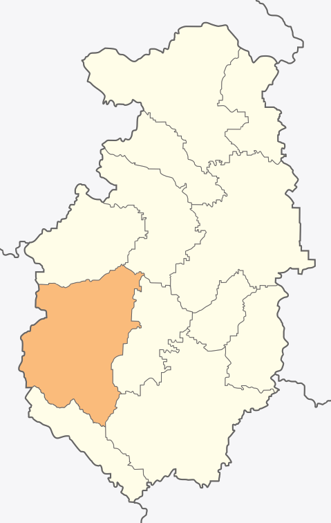 Map of Velingrad municipality, Pazardzhik Province